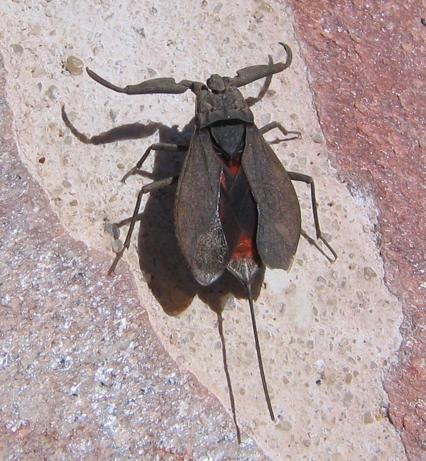 Nepa cinerea with semi-spread wings. Picture shot in St. Jean d`Esterelle in France.